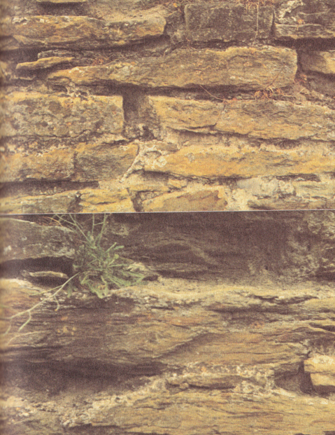 Air between the stones - Kornelimünster 1975